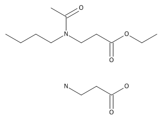 Comparison if IR3535 and beta-alanine